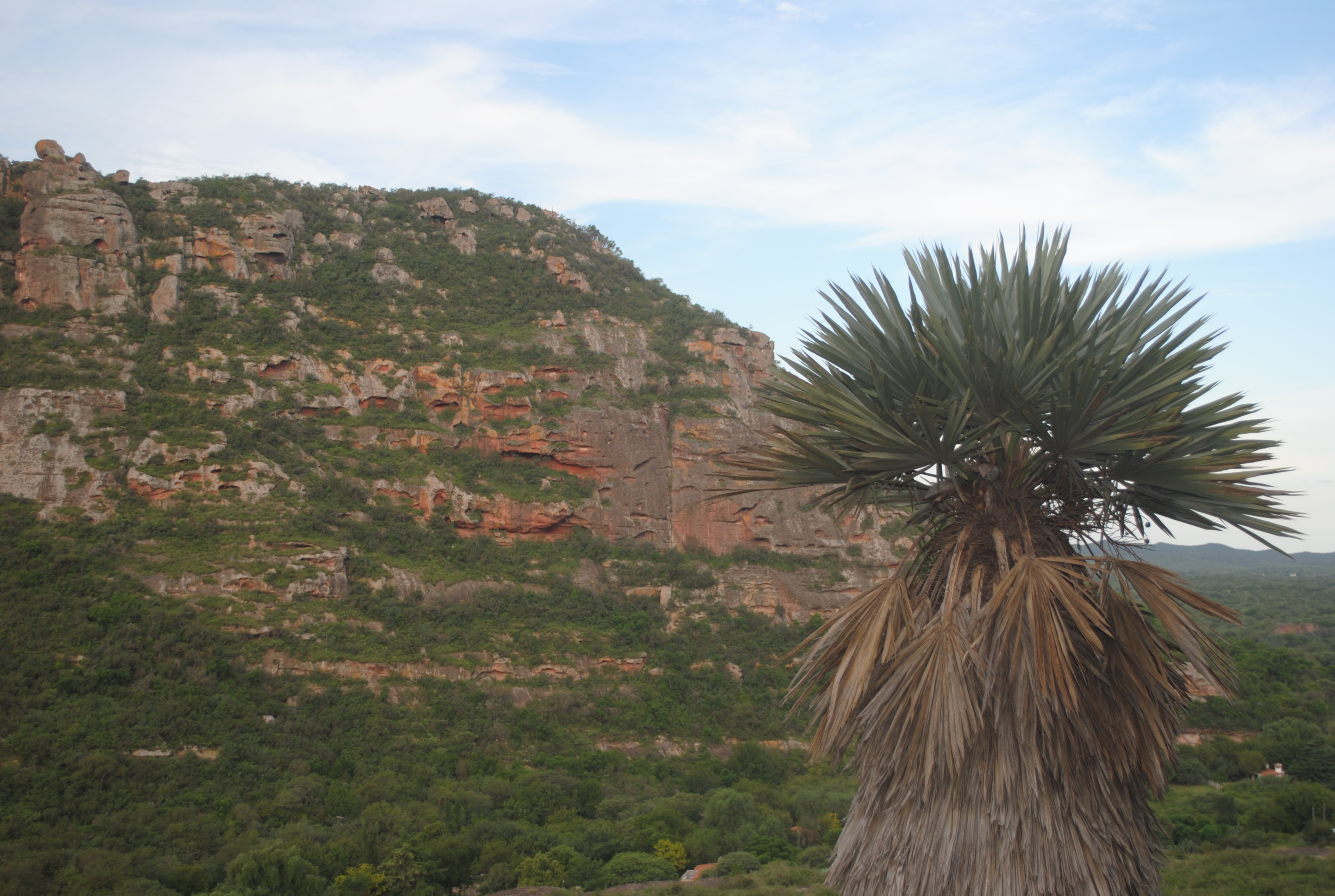 Cerro Colorado view, Córdoba province, Argentina